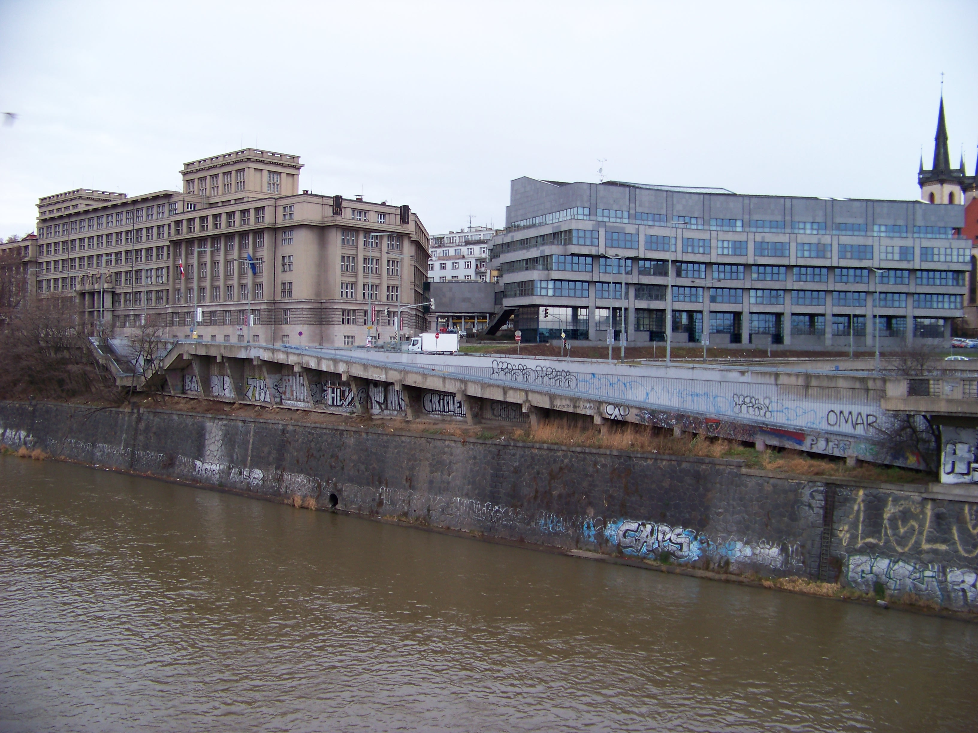 Prague-Holešovice, the Czech Republic. Nábřeží Kapitána Jaroše.